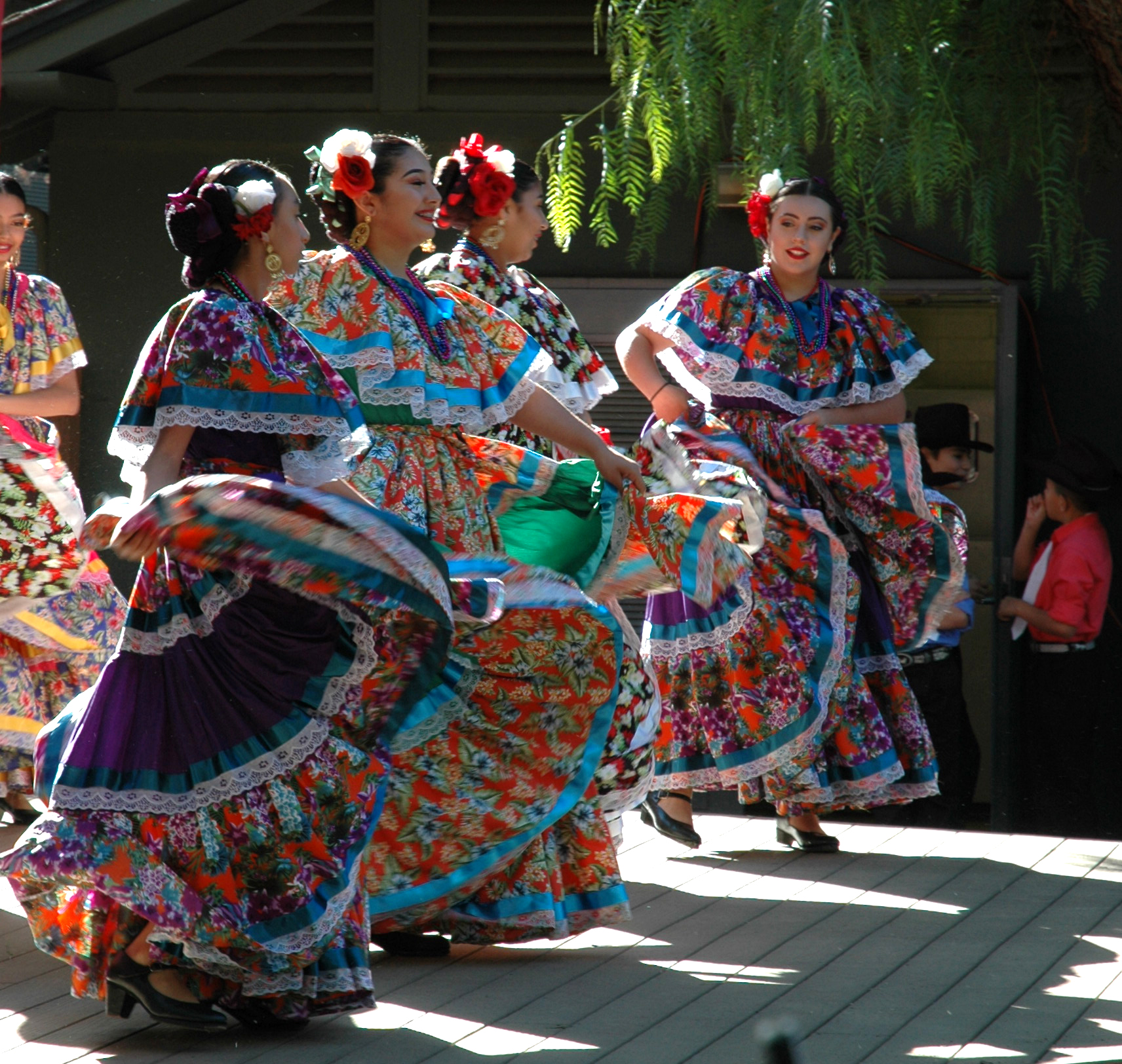 Performances from the Los Lupeños de San José dancers. Hosted by History San Jose.